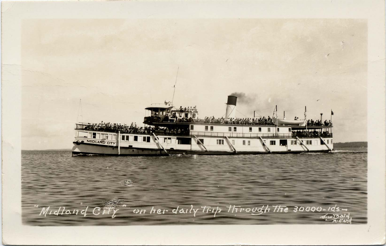 Postcard by J.W. Bald of Midland, Ontario depicting the SS Midland City cruising in Georgian Bay.